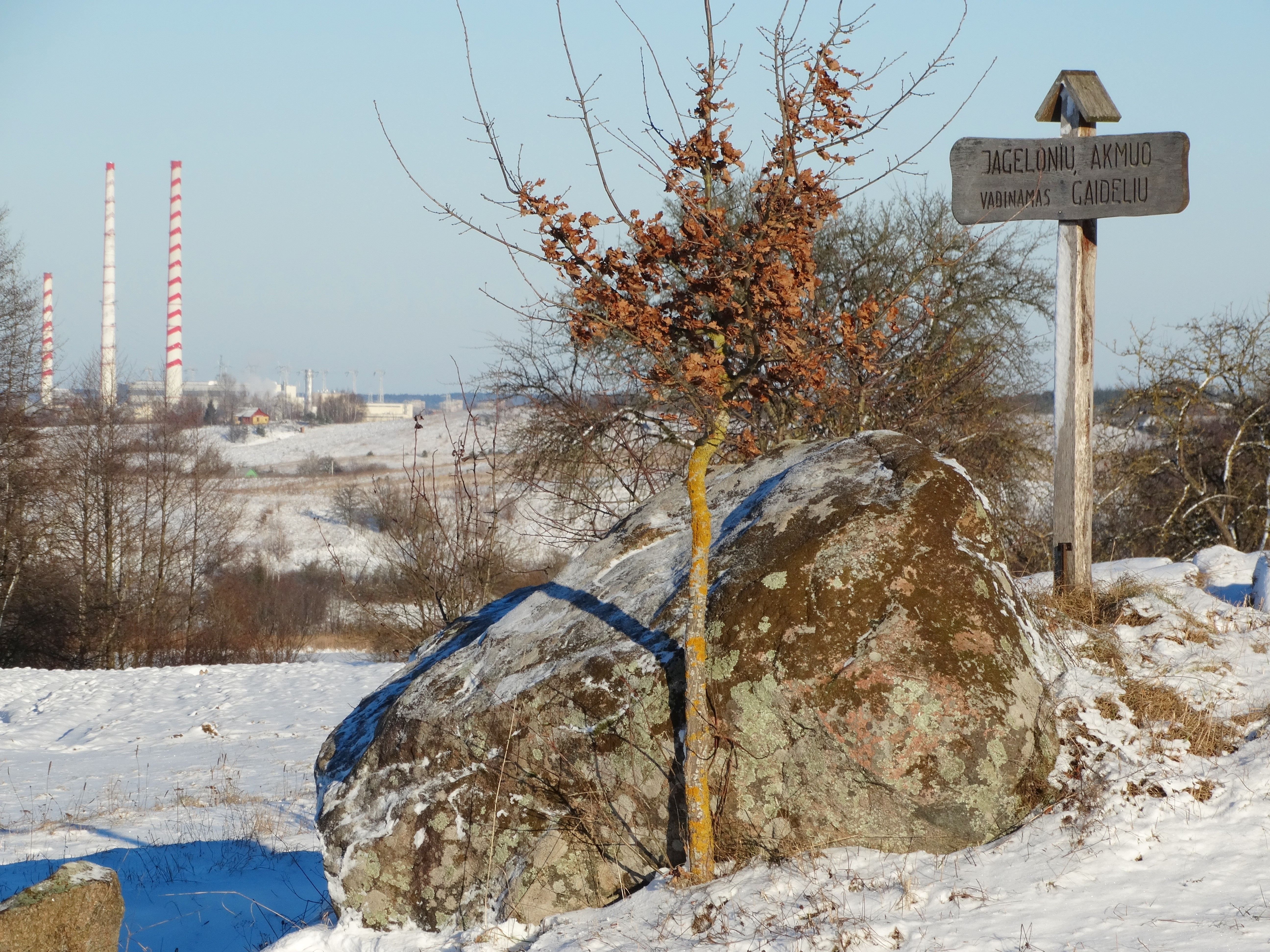 Stone, Jagėlonys, Elektrėnai Municipality, Lithuania